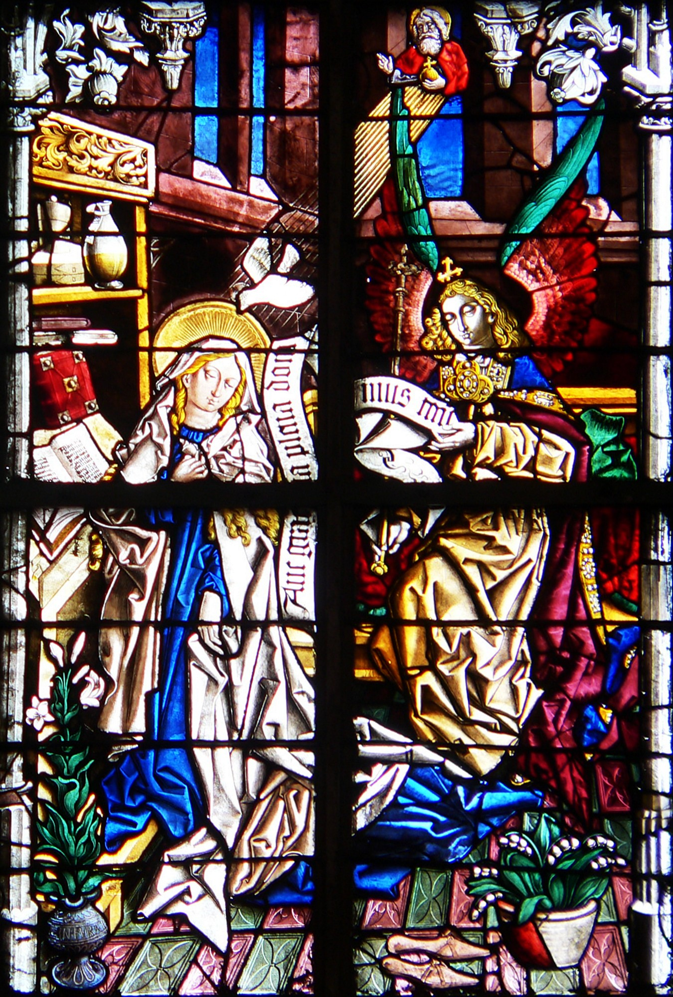 The Lutheran cathedral "Ulm Münster" of Ulm/Germany, Detail of the coloured window "Kramerfenster", Annunciation (scene of the bible)